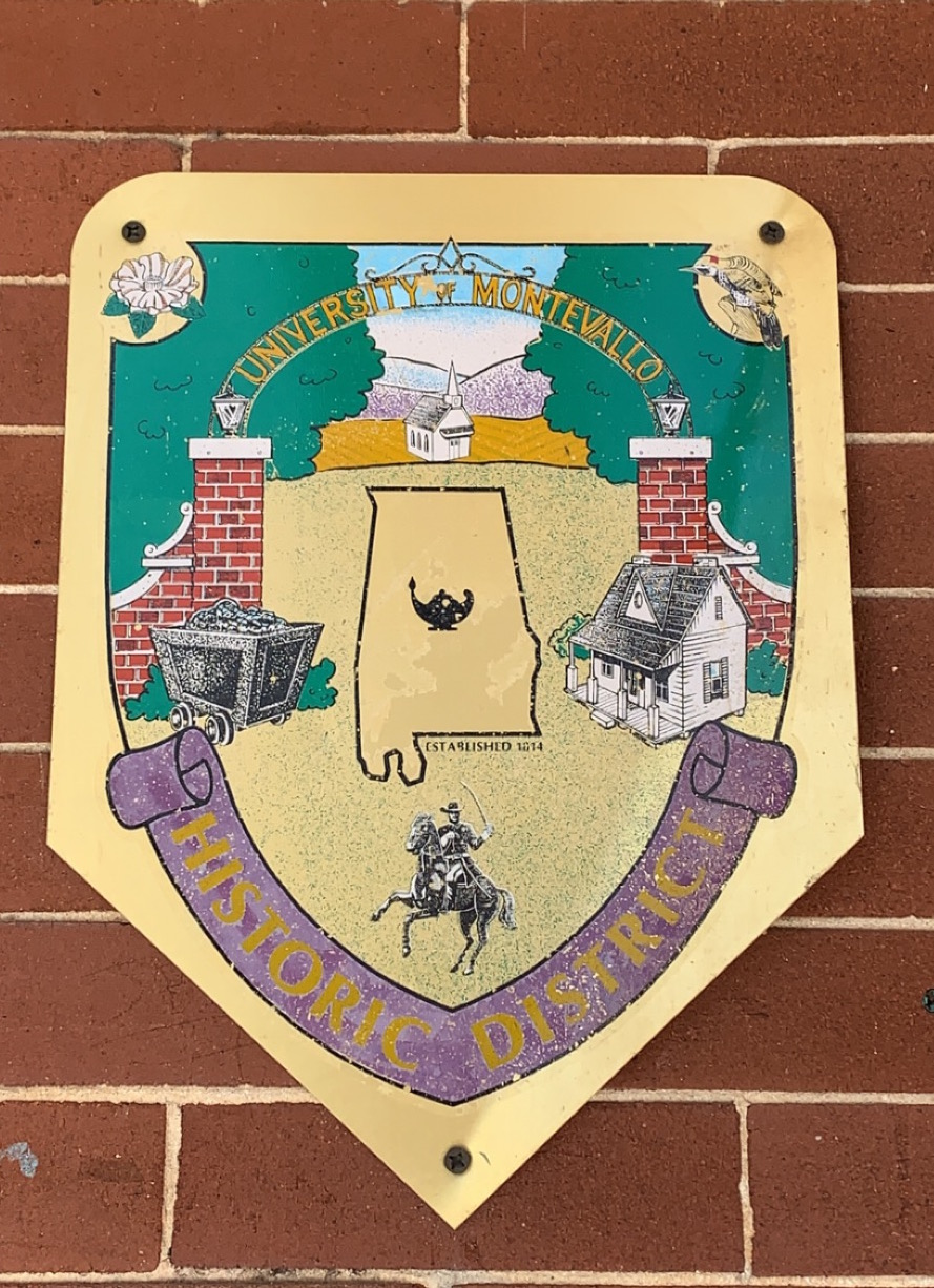 This sign is on all of the buildings in the University of Montevallo Historic District